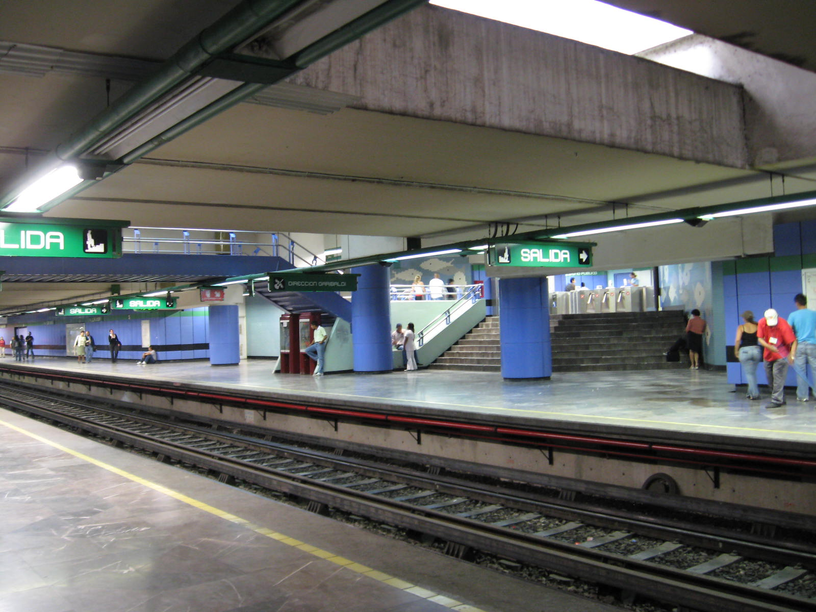 View of the northbound platform of Metro station La Viga on Line 8 in Mexico City